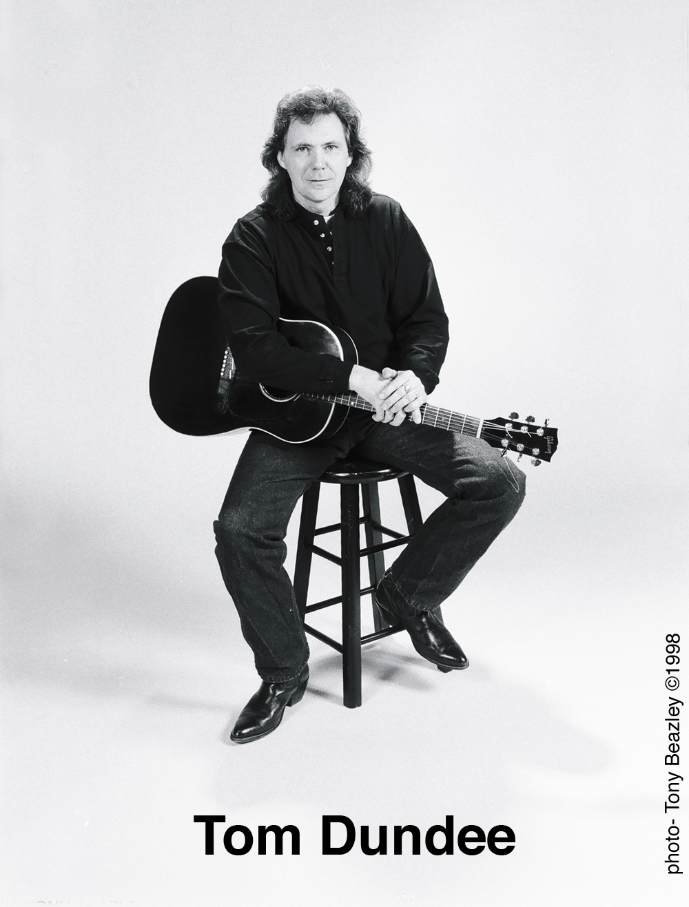 Tom Dundee legendary folk singer